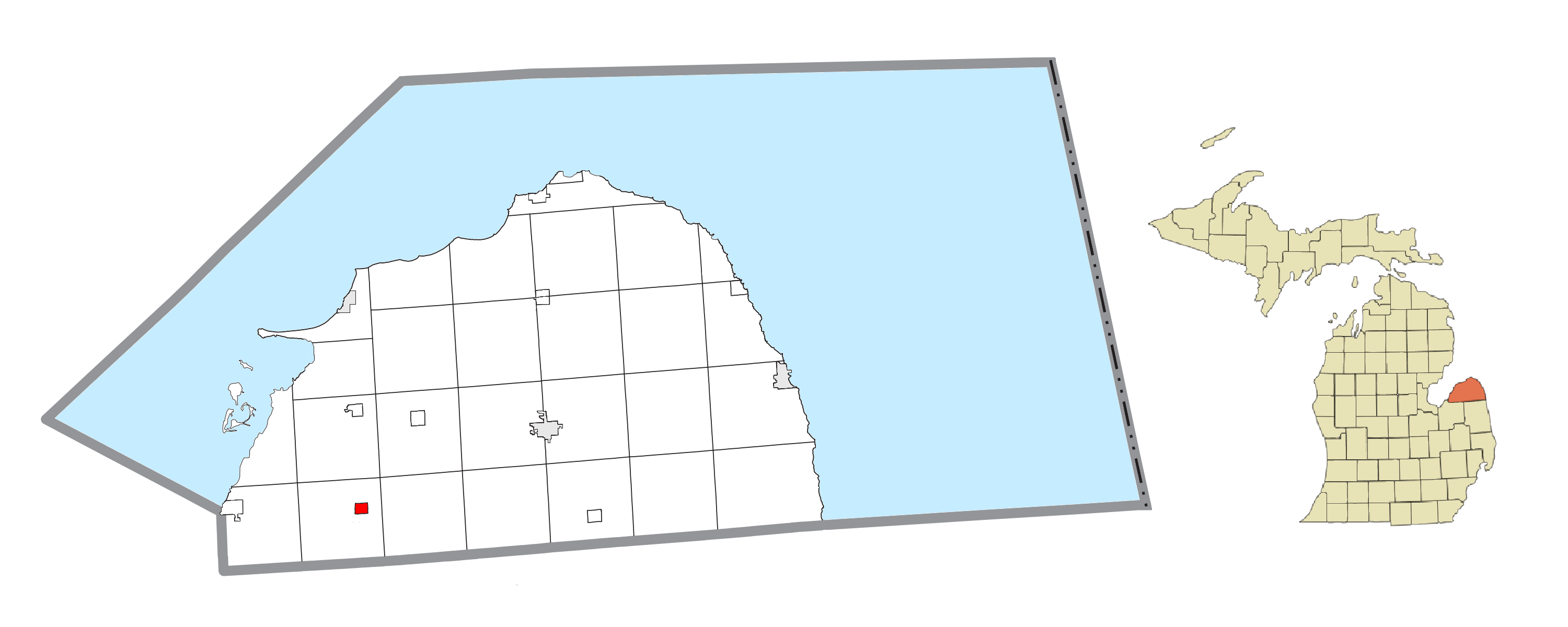 Owendale, MI